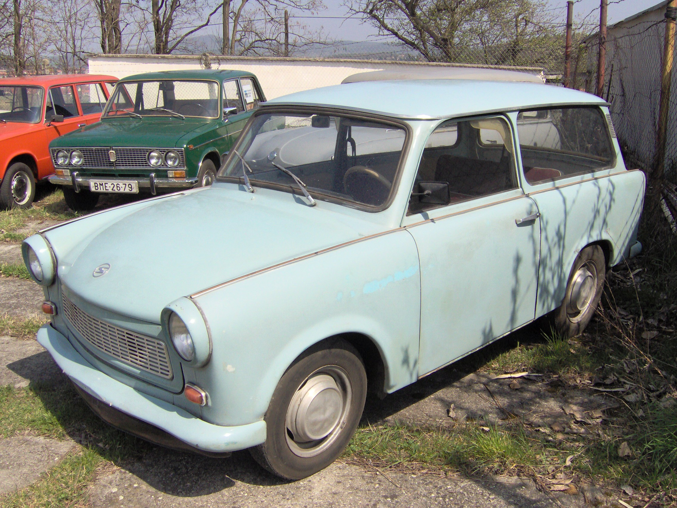 Trabant 601 Combi in Brno, Czech Republic